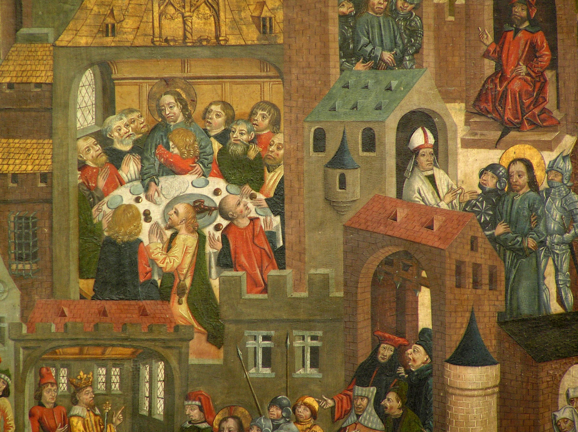 Toruń, church of St. James, Passion painting, ca. 1480-90. Detail - the Last Supper